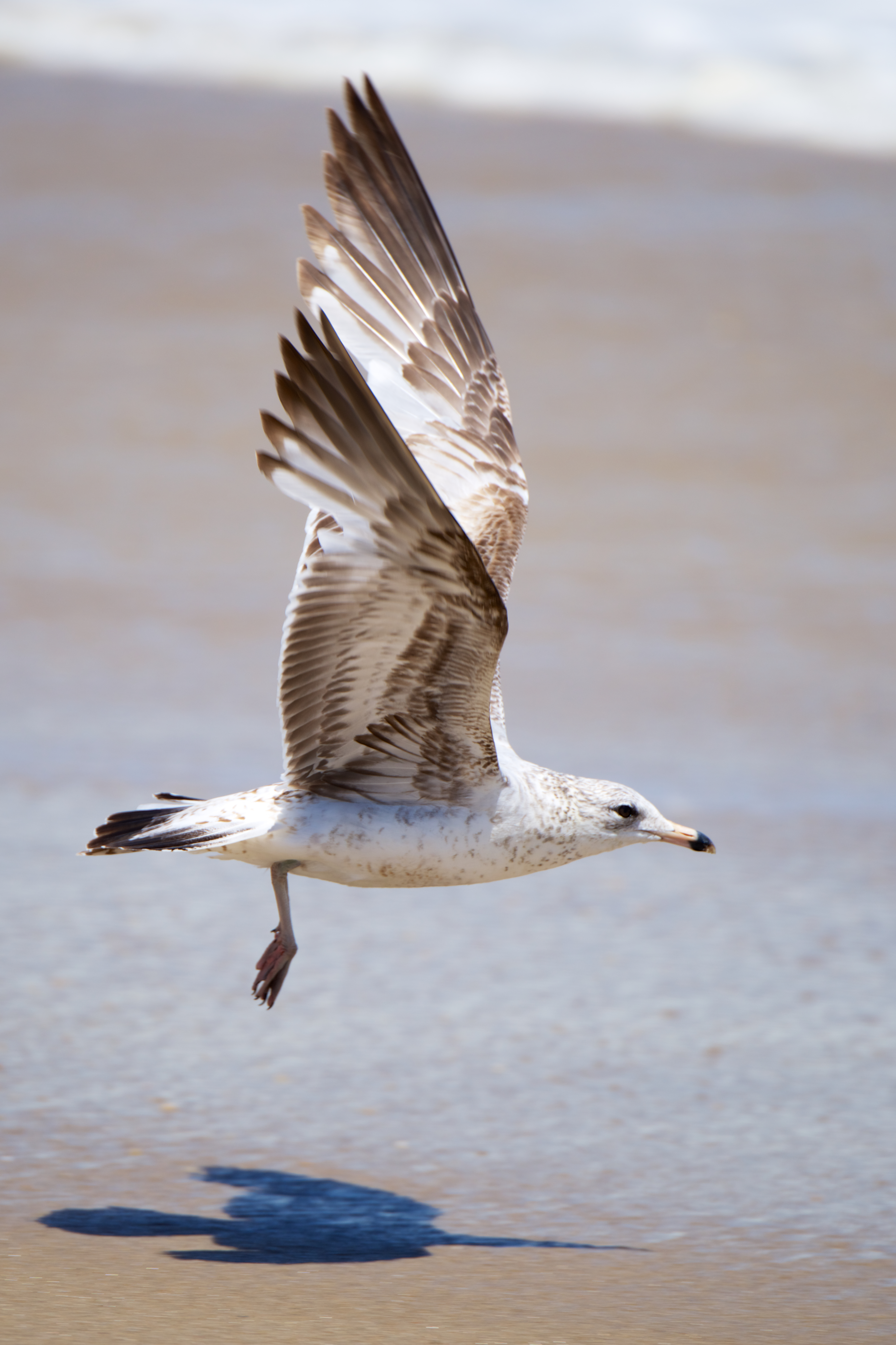 Ring-billed Gull Larus delawarensis, first-summer, taking off the Sandy Hook shore, New Jersey